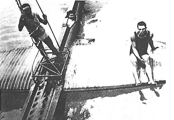 Italian Piaggio P.7 (also known as "Piaggio-Pegna P.c.7") racing seaplane